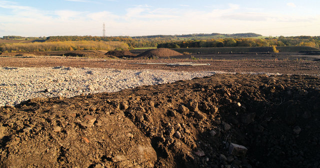 Remediation of Frickley Colliery Huge reclamation site of former colliery.